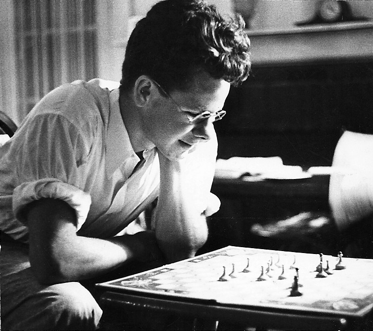 This picture of Gordon Gould was taken by his brother, my father, Geoffrey Gould, in 1940. I am Geoffrey Gould's sole heir and owner of this photograph, and I give permission for it to be used in the article "Gordon Gould."